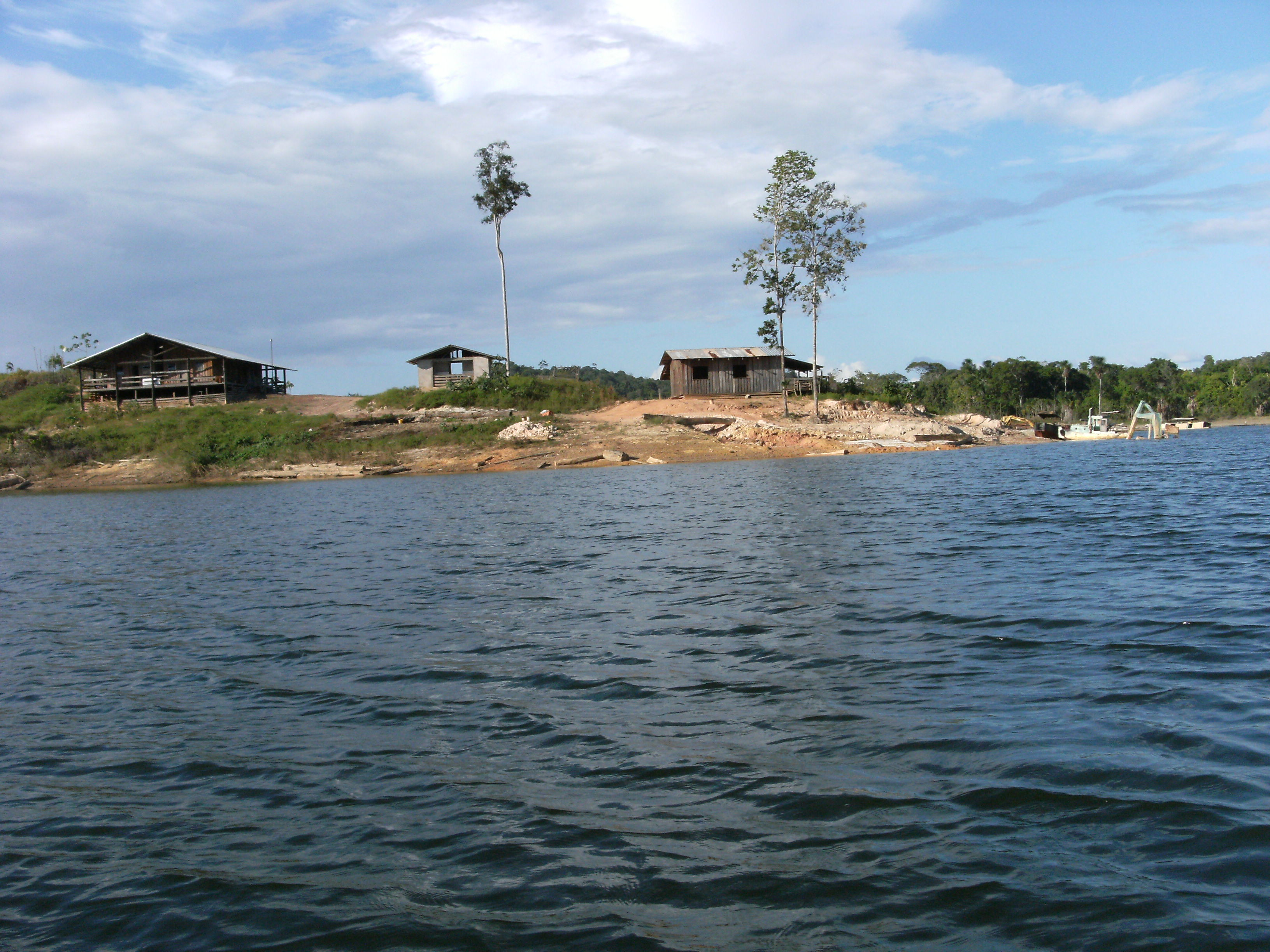 Brokopondo reservoir in Suriname.